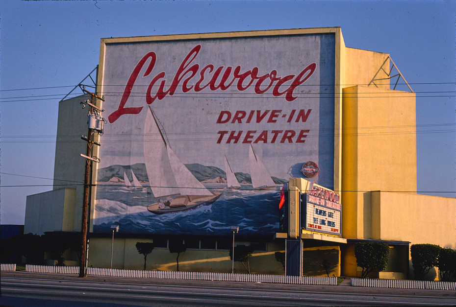 Margolies, John,, photographer. Lakewood Drive-In Theater, Carson Street, Lakewood, California 1981. 1 photograph : color transparency ; 35 mm (slide format). Notes: Title, date and keywords based on information provided by the photographer. Margolies categories: Mural and decorated screens; Drive-in movie theaters & signs. Purchase; John Margolies 2007 (DLC/PP-2007:125). Credit line: John Margolies Roadside America photograph archive (1972-2008), Library of Congress, Prints and Photographs Division. Please use digital image: original slide is kept in cold storage for preservation. Forms part of: John Margolies Roadside America photograph archive (1972-2008). Subjects: Drive-in theaters--1980-1990. United States--California--Lakewood. Format: Slides--1980-1990.--Color For more information, see "John Margolies Roadside America Photograph Archive - Rights and Restrictions Information" Repository: Library of Congress, Prints and Photographs Division, Washington, D.C. 20540 USA, Part Of: Margolies, John John Margolies Roadside America photograph archive (DLC) 2010650110 General information about the John Margolies Roadside America photograph archive is available at Higher resolution image is available (Persistent URL): Call Number: LC-MA05- 300